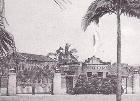 Taihoku Imperial University